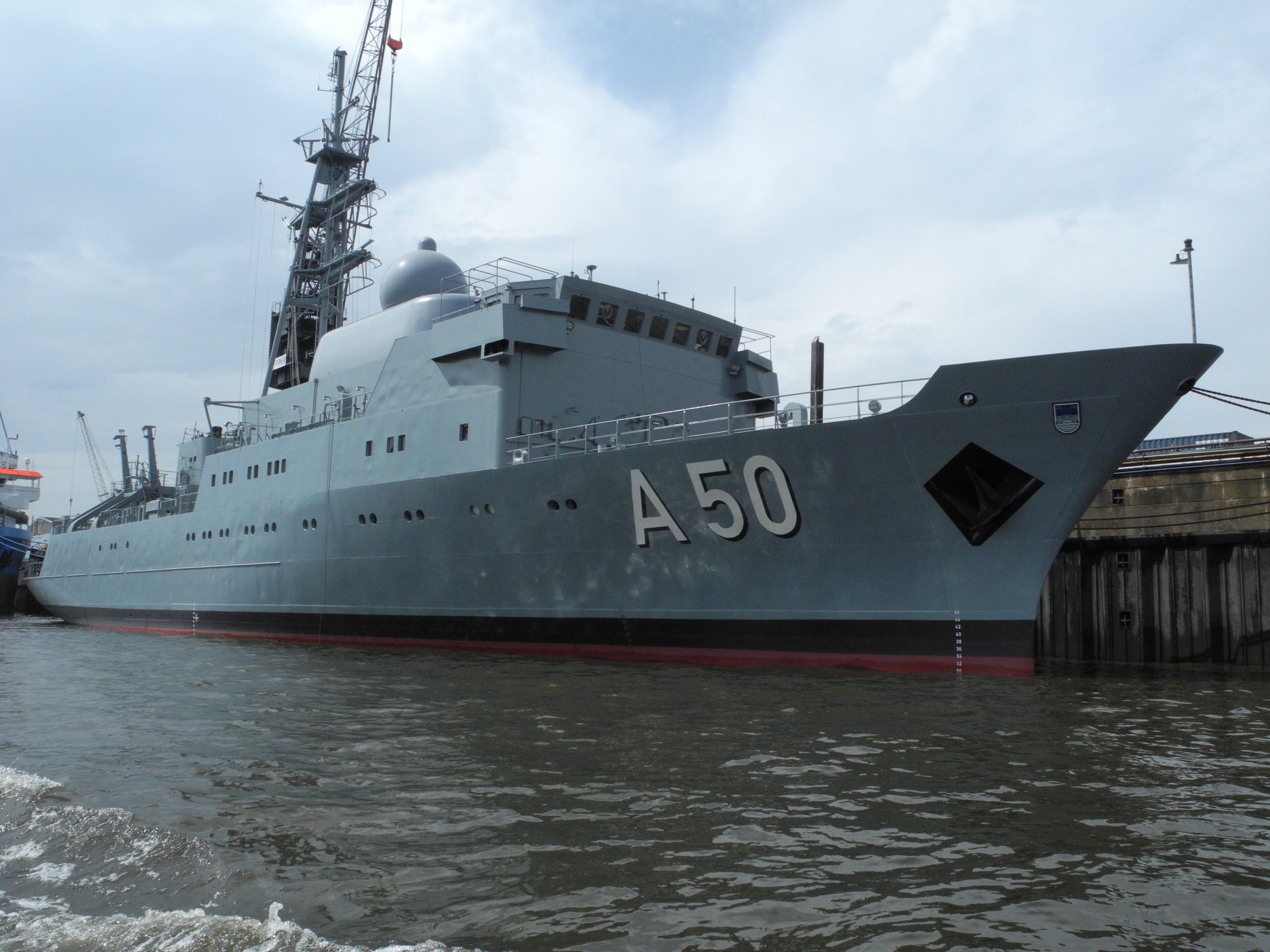 German navy boat A50 "Alster" in Hamburg